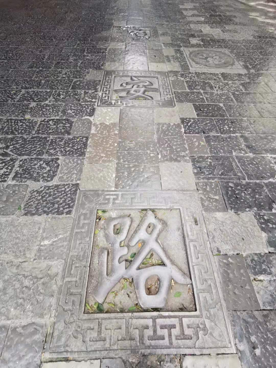 Name of Lin'an Road, engraved on the pavement, in the Jianshui Ancient City. Yunnan Province, China.